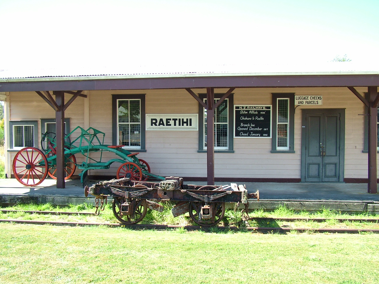 The Waimarino Museum on Seddon St in Raetihi is the best place for catching up on the history of the town with many fascinating photos, artifacts & stories.